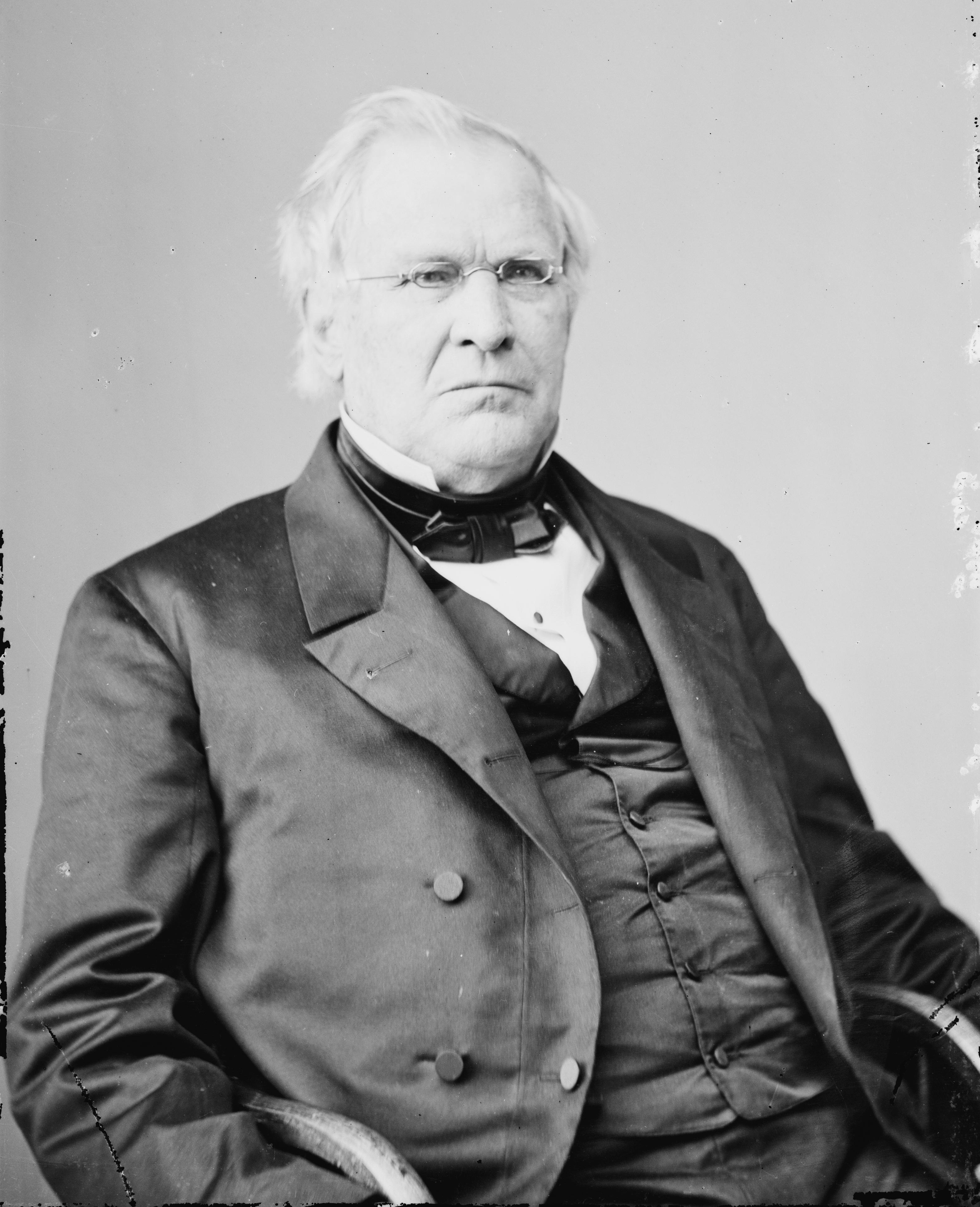 Robert Cooper Grier. Library of Congress description: "Judge Robert C. Grier".